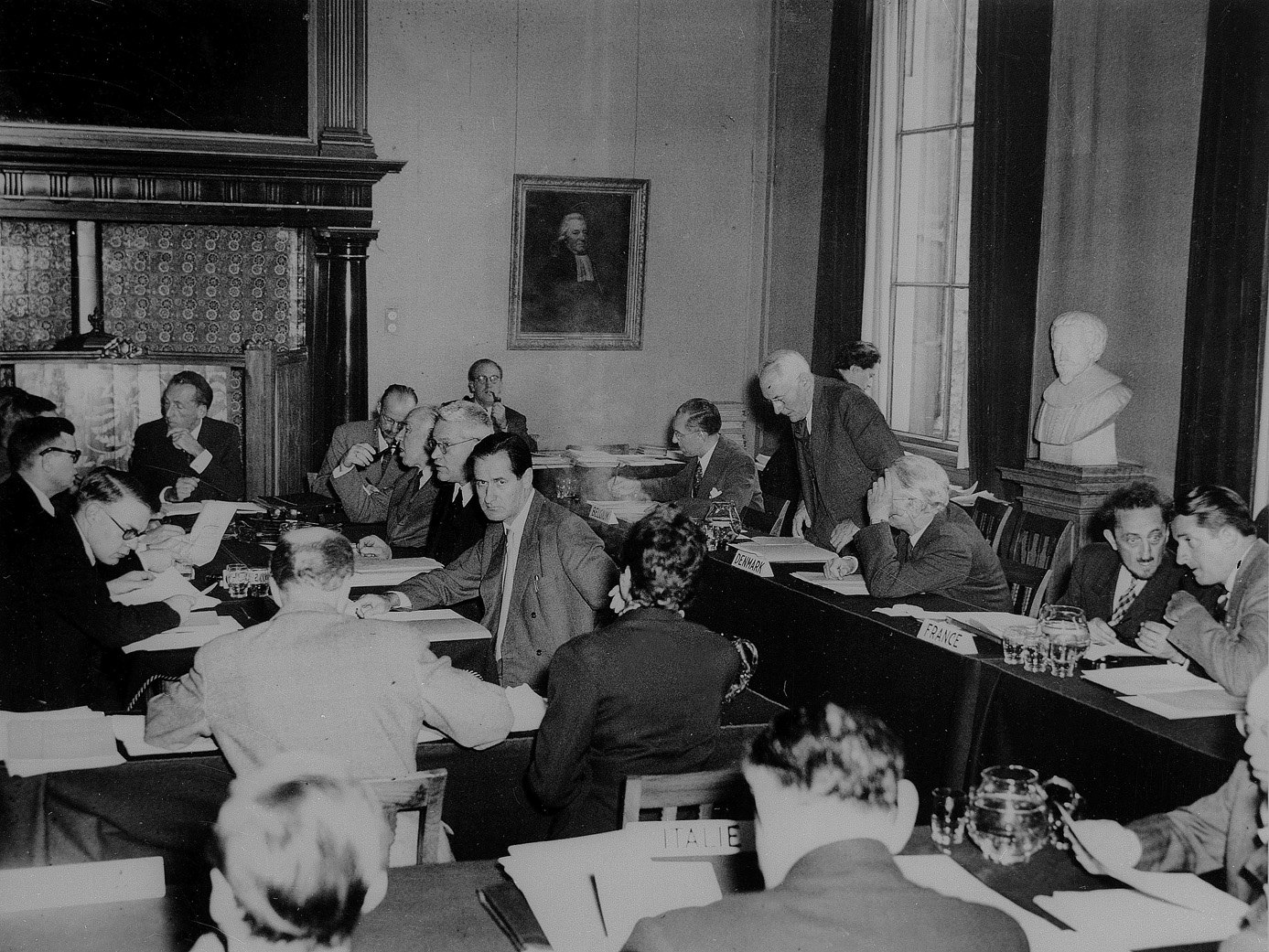 Many of CERN's founders gathered for the Third Session of the provisional CERN Council in Amsterdam on 4 October 1952. At this session, Geneva was chosen as the site for the Laboratory and it was decided to build a 25-30 GeV Proton Synchrotron. Depicted are (amongst others): Frank Goward (left side of the photo, wearing glasses and a side parting) Odd Dahl (behind Goward on the left side, wearing dark glasses) Lew Kowarski (opposite of Dahl, light-coloured hair, wearing glasses) Nils Bohr (behind Kowarski, smoking pipe) Pierre Auger (behind Bohr, looking down while writing) Paul Scherrer (next to Auger, looking to his right side)